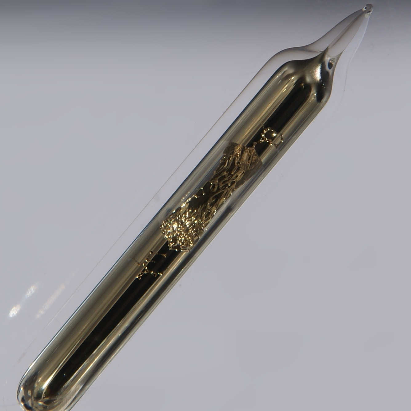 1 gram of Caesium in ampoule.